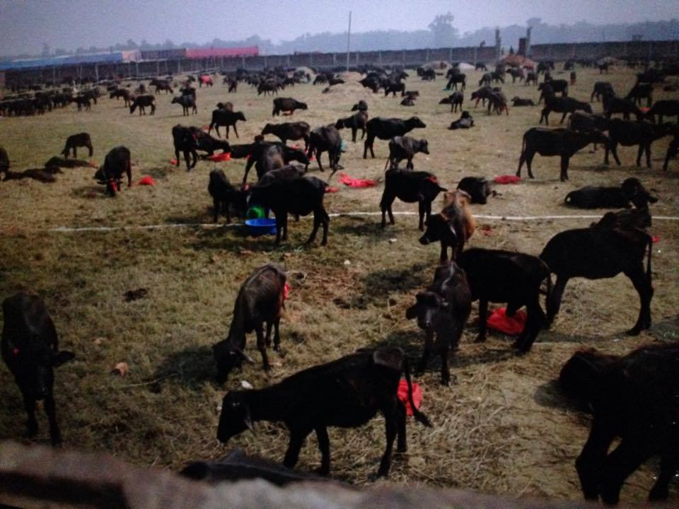 Animals read to be cut in Gadhimai Festival